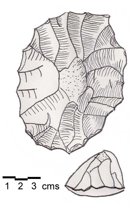 Heavy Neolithic flint tool of the Qaraoun culture - Massive steep-scraper on a split cobble or flake with direct retouch all around and cortex on the crest. Found at Mtaileb I. Drawing by Paul Bedson. Public domain